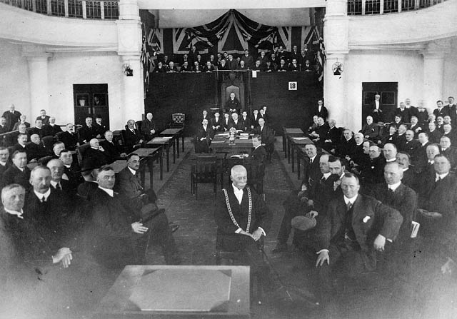 Opening session of the House of Commons (the 13th Canadian Parliament), which was held at the Victoria Memorial Museum due to the Parliament Buildings fire of 1916. Rt. Hon. Sir Robert Borden (Prime Minister) is seated at the desk at left. Arthur Beauchesne (Deputy Clerk of the House of Commons) is seated at the Clerk's table on the left. Rt. Hon. Sir Wilfrid Laurier (Leader of the Official Opposition) is seated at the desk on the right. Ottawa, Canada.